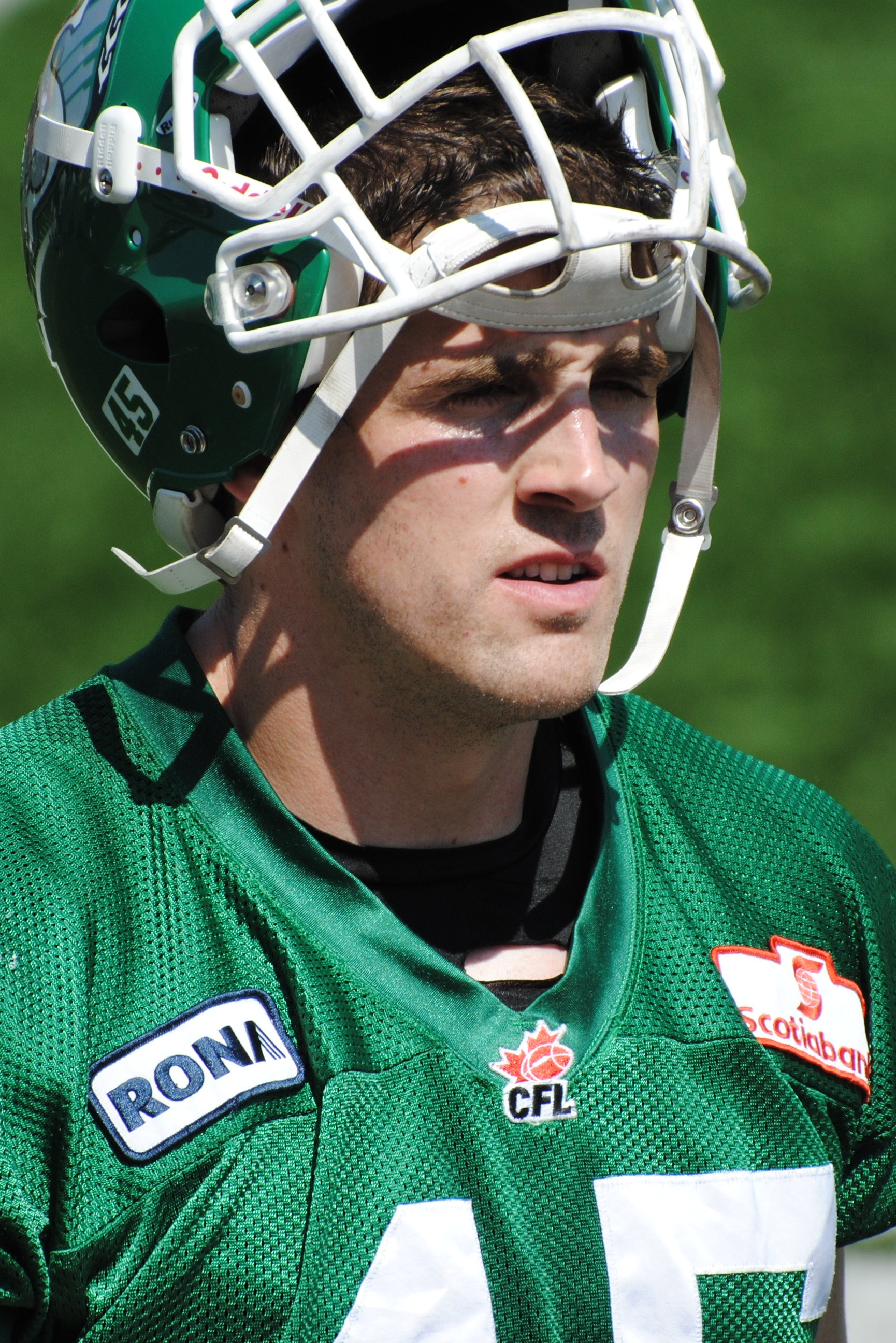 Mike McCullough after a Saskatchewan Roughriders practice.